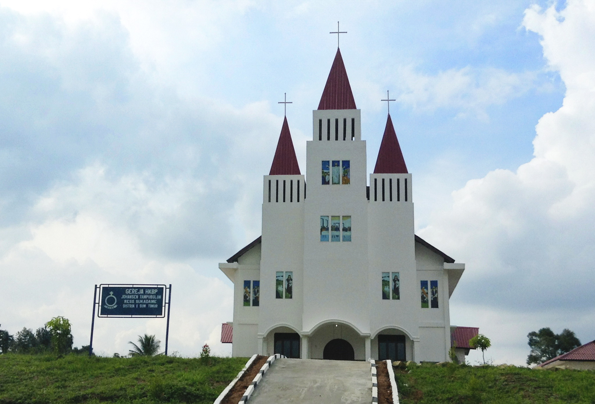 HKBP Johansen Tampubolon, Res. Sukadame, Church in Siantar Martoba, Pematangsiantar